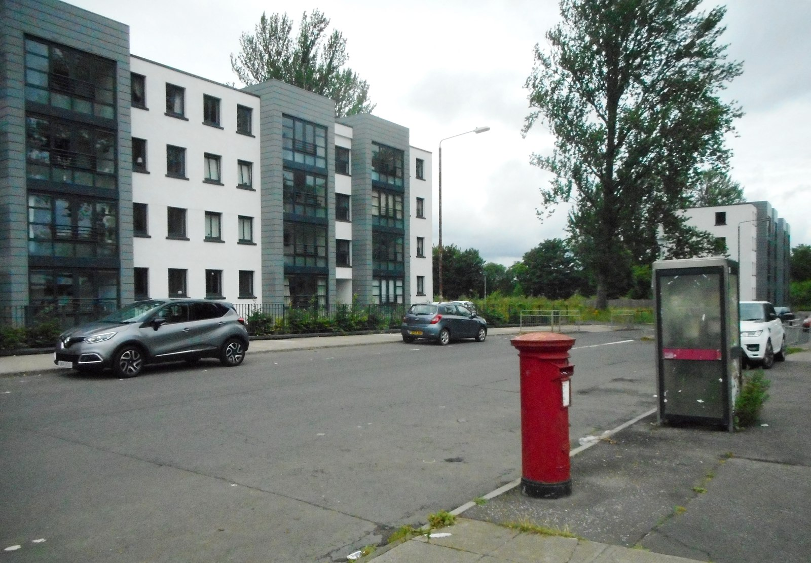 Flats on Shawbridge Street